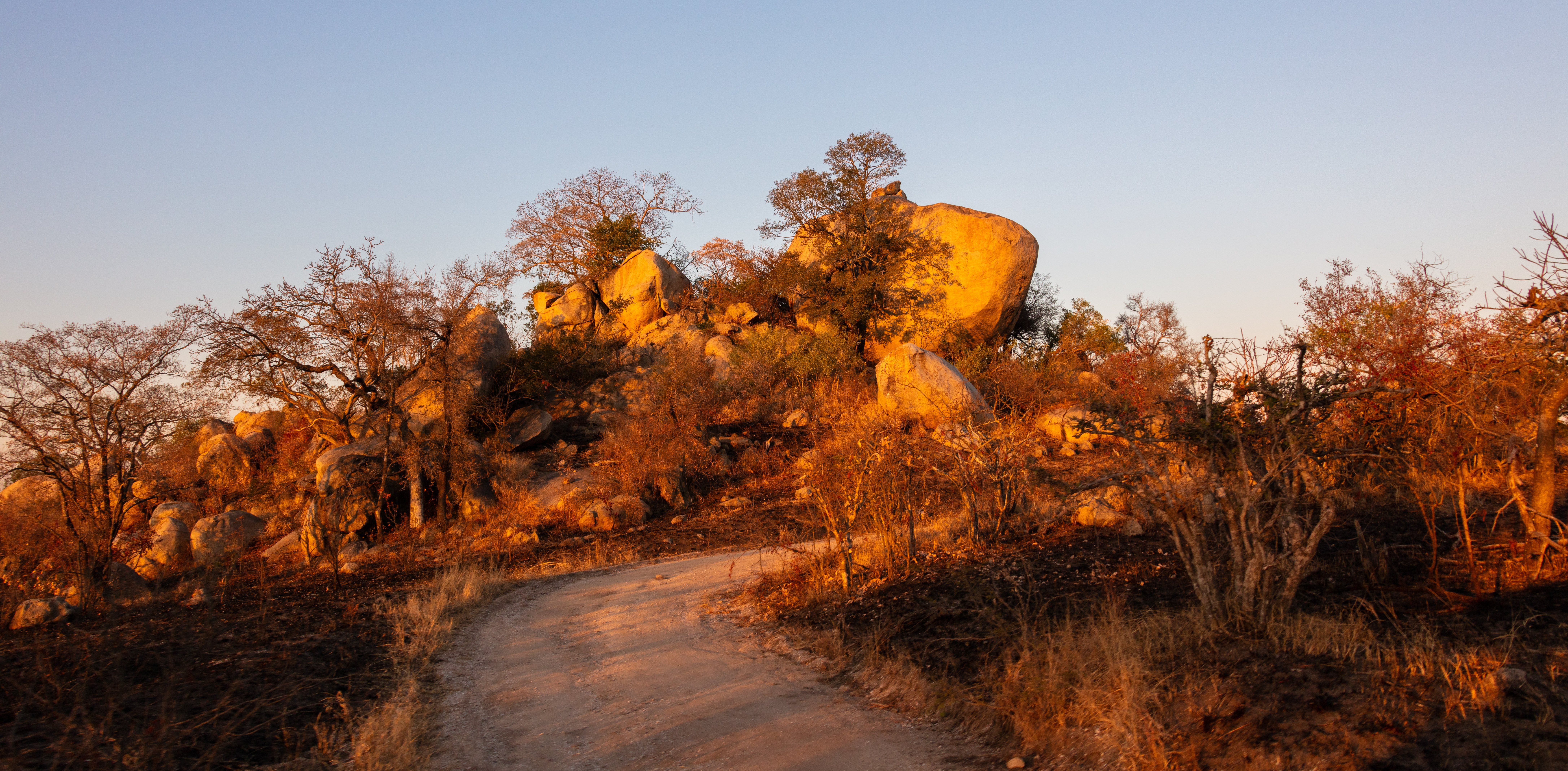 Landscape in Kruger National Park, South Africa